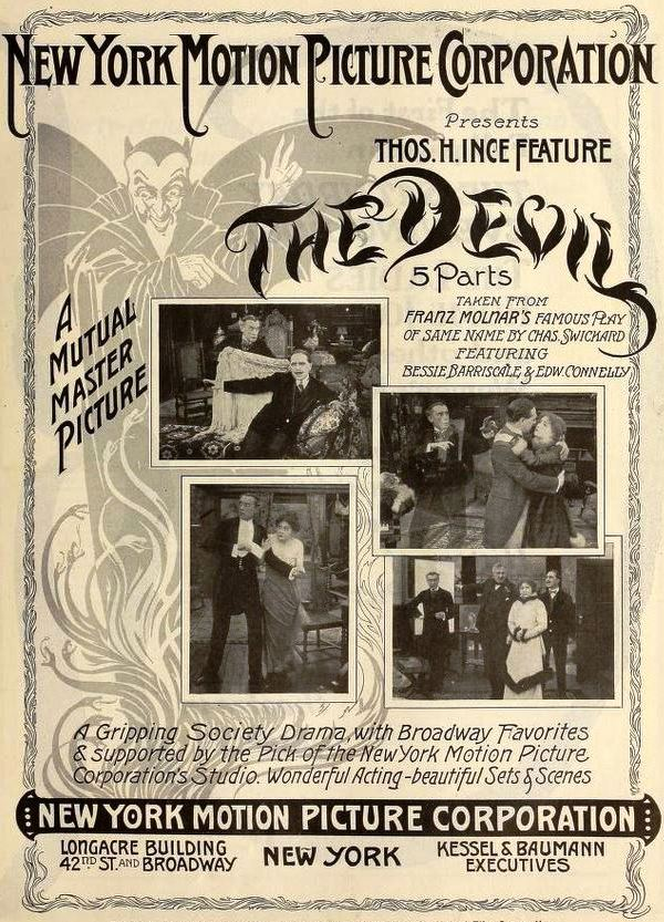 Ad for the American film The Devil (1915) on page 29 of the March 29, 1915 Reel Life.